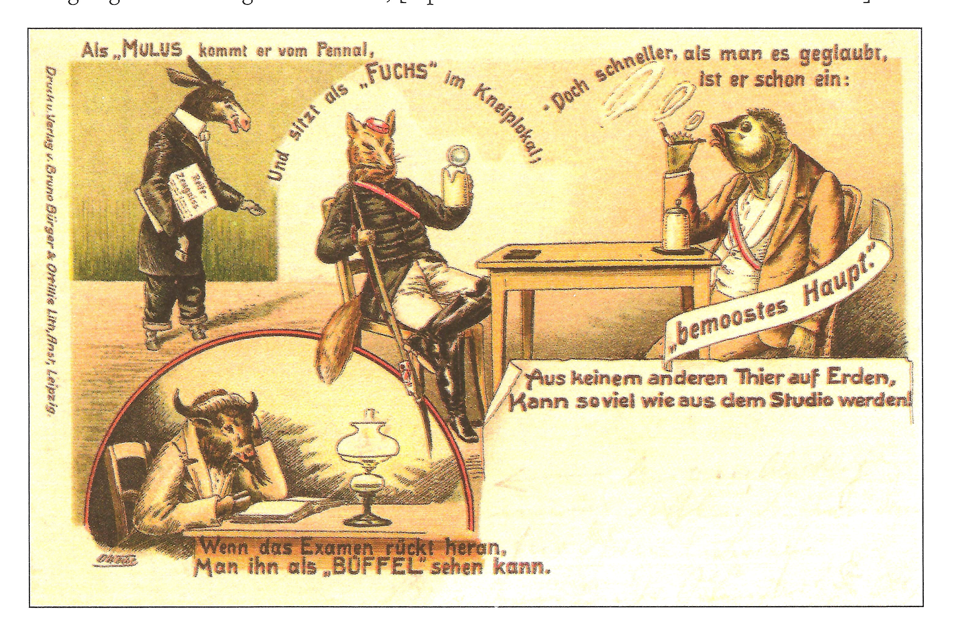 German student language, literally interpreted in pictures